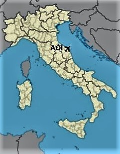 Ancona Airport location